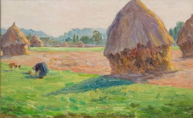 Armand Guillaumin, Paysage de l’Île de France, Les Meules, McColl Fine Art